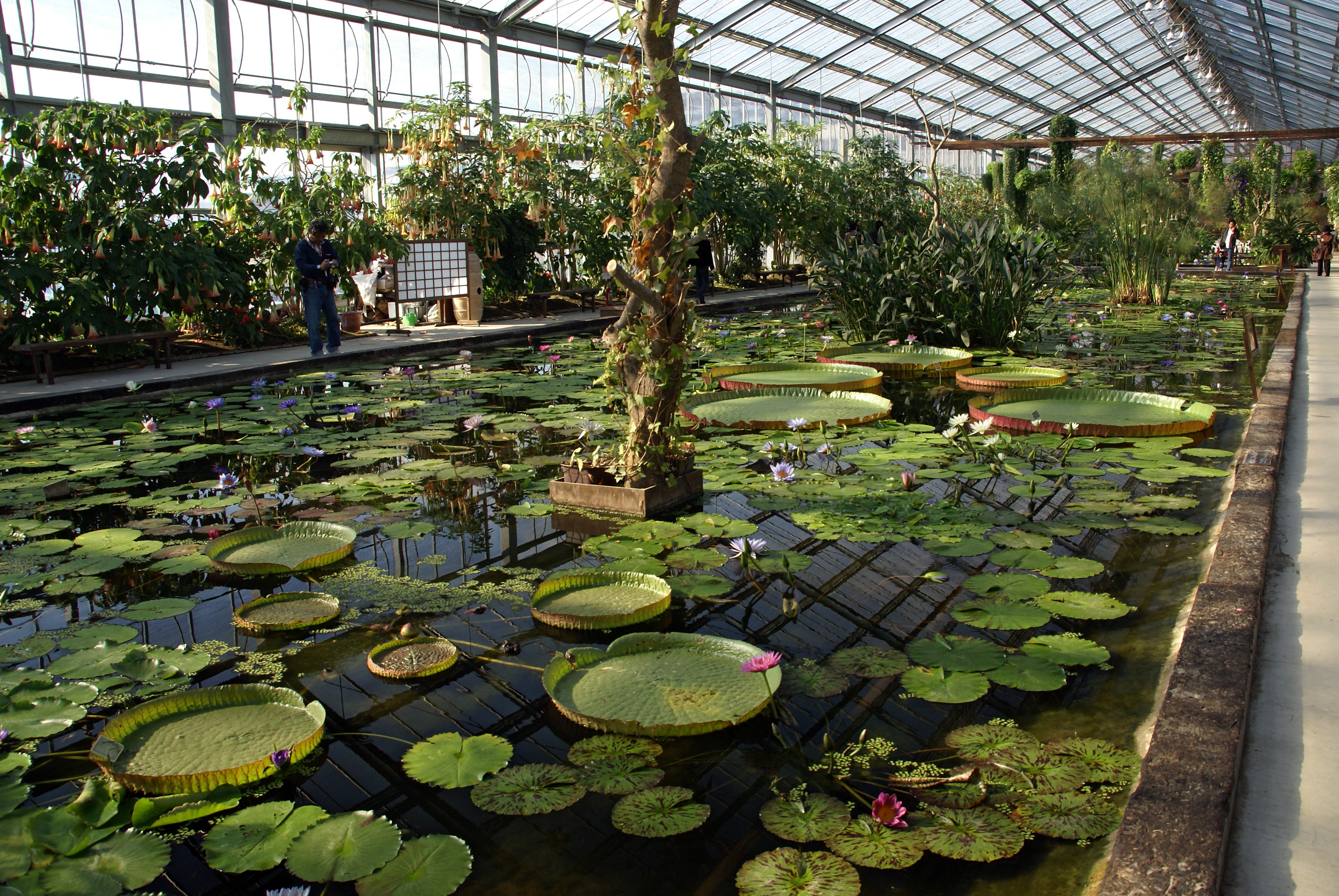 Kobe Kachoen (Kobe Flowers and Birds Garden) in Kobe, Hyogo prefecture, Japan